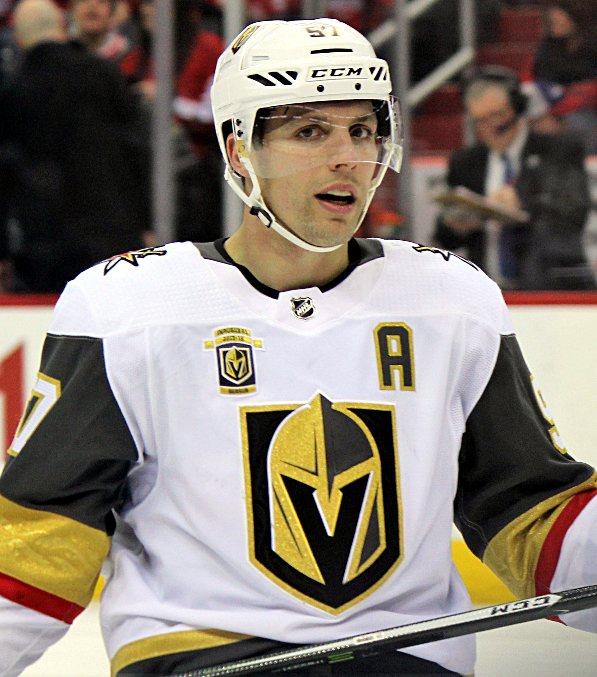 Vegas Golden Knights forward during a game against the Washington Capitals, February 4, 2018, at Capital One Arena in Washington, D.C.